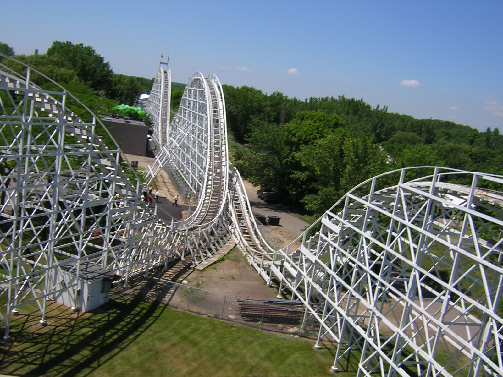 back side of High Roller roller coaster ride at Cedar Fair's Valleyfair! amusement park in Shakopee, Minnesota, USA